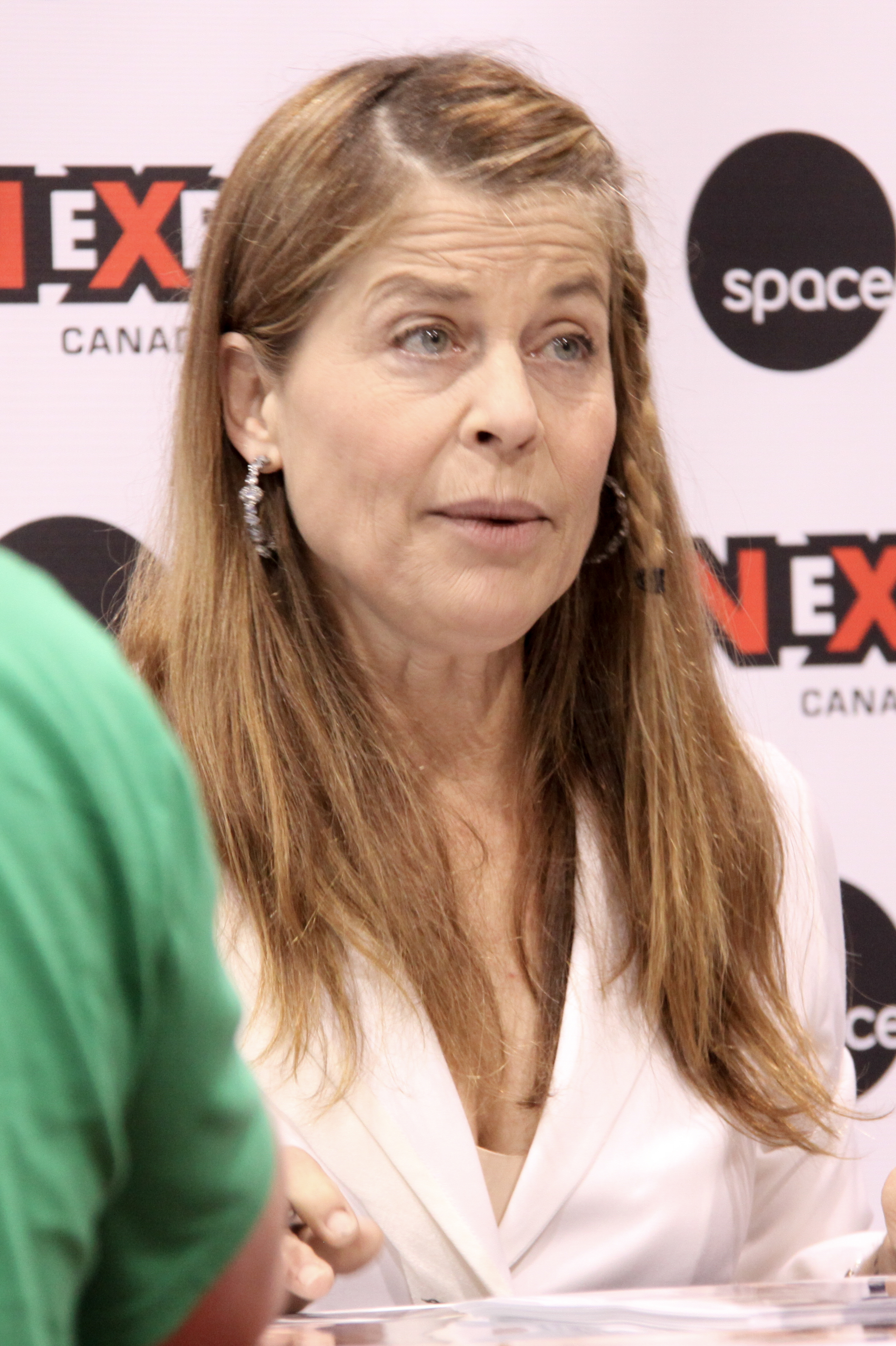 Fan Expo Canada in Toronto in 2013.